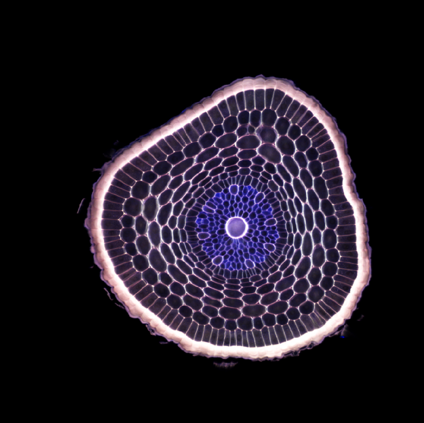 Confocal microscope image of the root of a barley plant (Hordeum vulgare), viewed in cross-section.